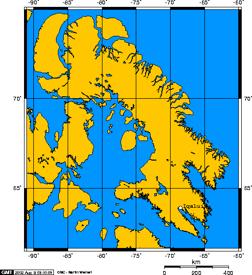 Mercator projection of Baffin Island, Nunavut, Canada